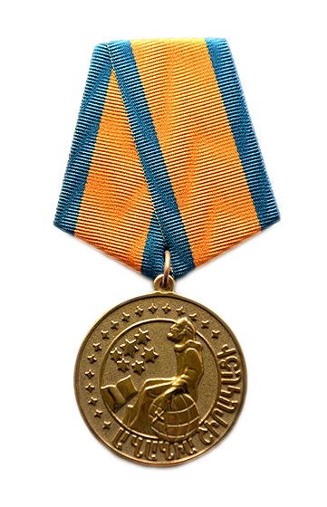 The Medal of Anania Shirakatsi